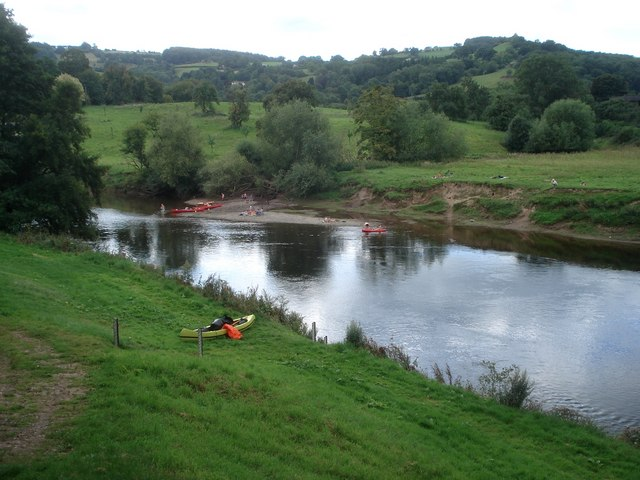 Canoe fun on the Wye This gravel bank just downstream from Bredwardine bridge is a popular spot for summer play on the river. Merbach Hill in the distance.